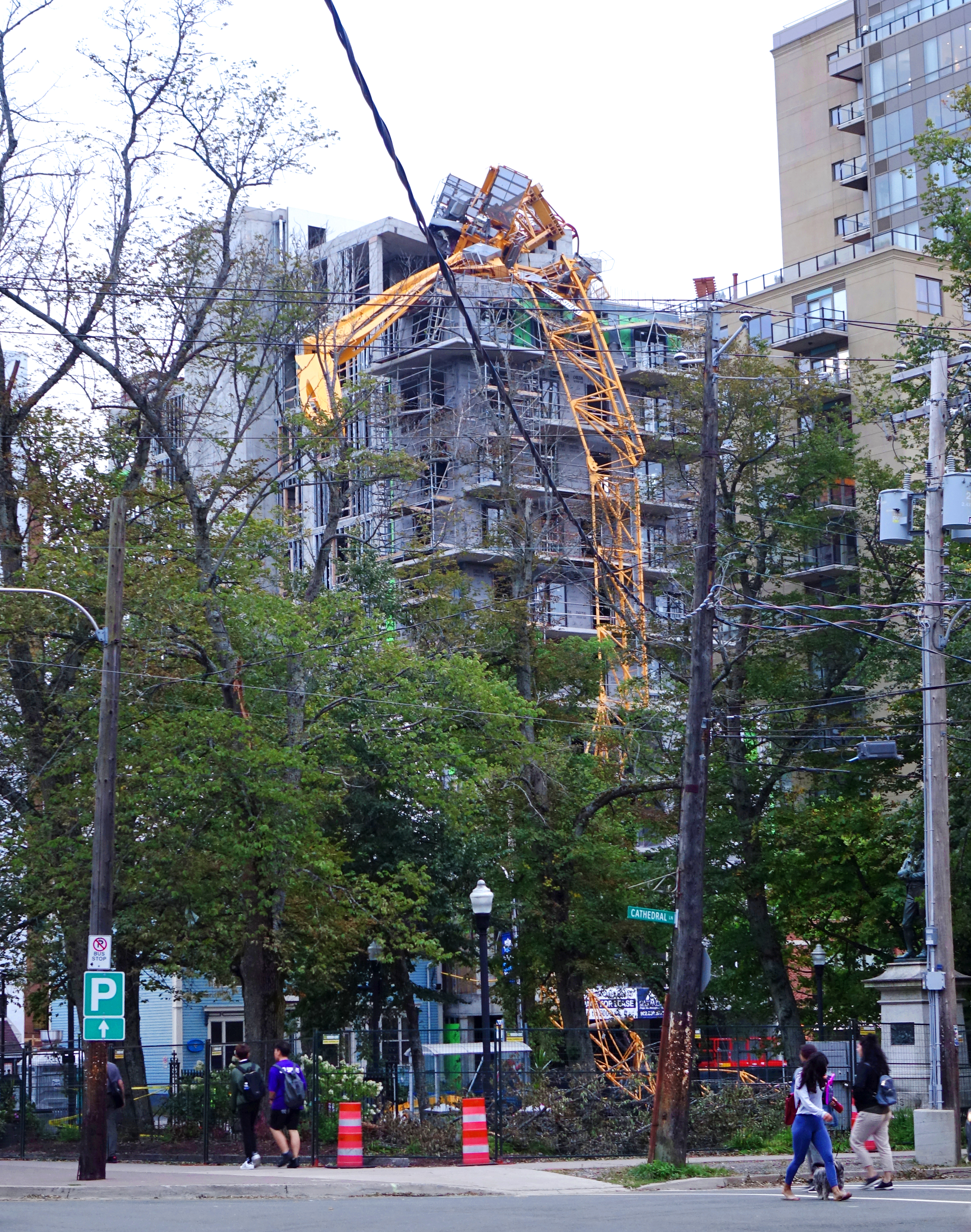 A construction crane lies on a building on South Park Street in Halifax, Nova Scotia, Canada, after having collapsed on 7 September 2019 due to heavy winds from Hurricane Dorian.